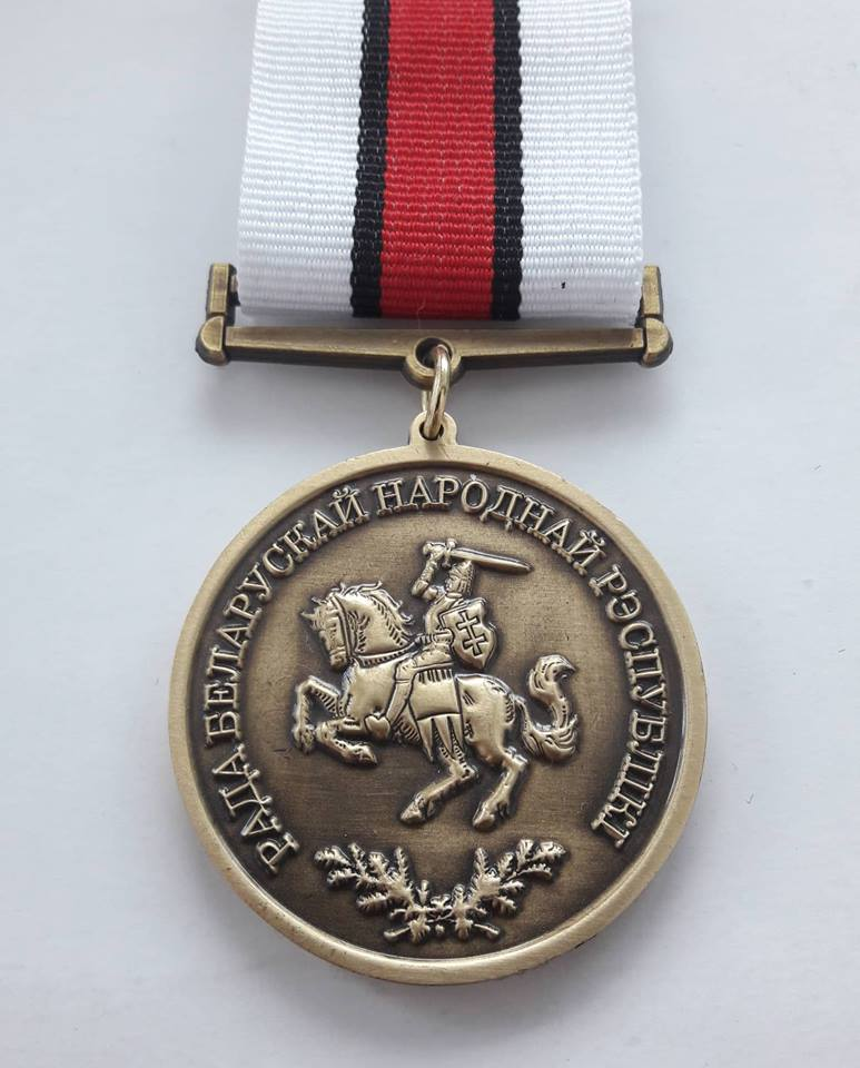 Belarusian People's Republic Centennial Medal